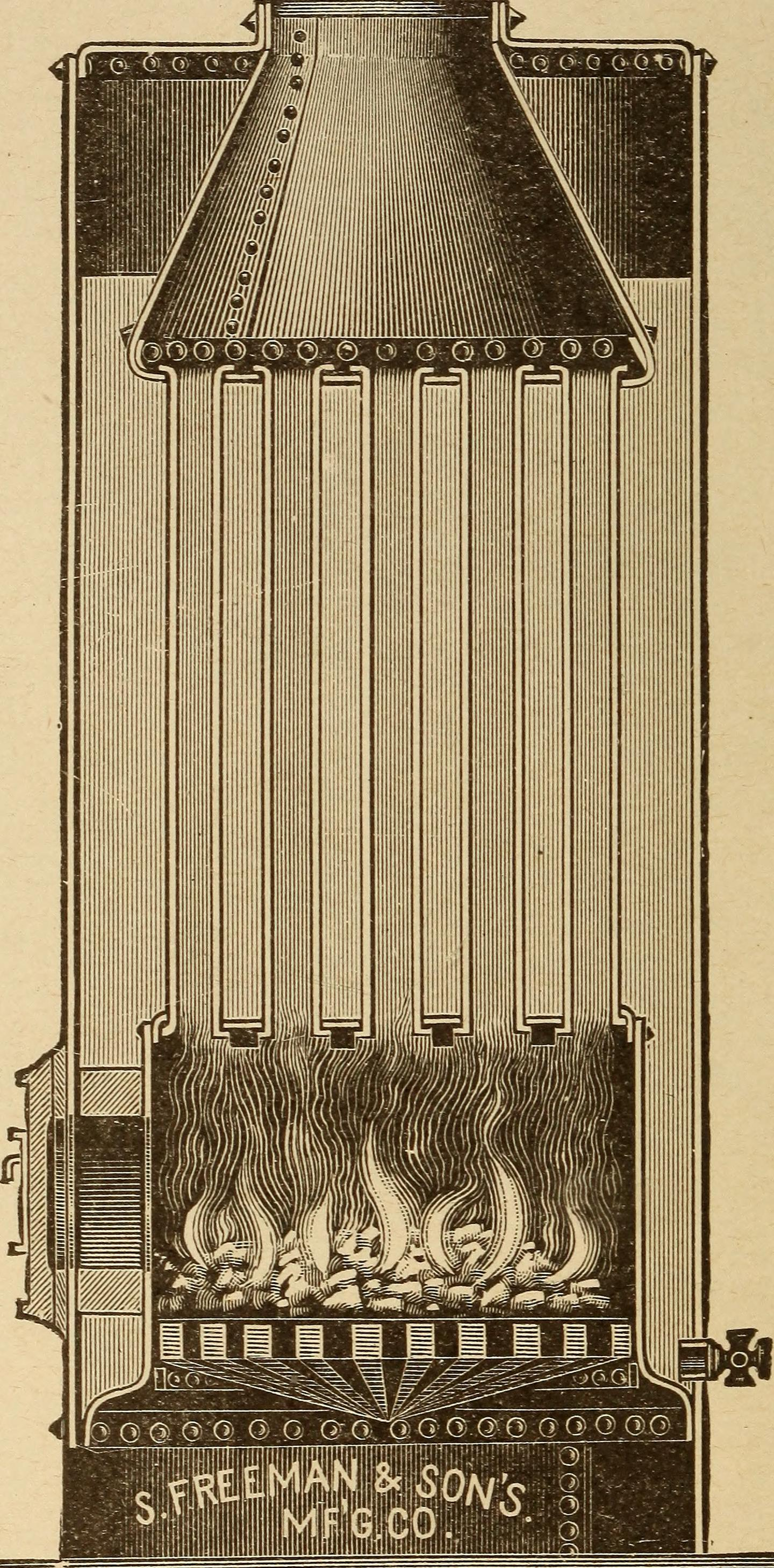 Title: Farm engines and how to run them; the young engineer's guide ... with special attention to traction and gasoline farm engines, and a chapter on the science of successful threshing Year: 1910 (1910s) Authors: Stephenson, James H Subjects: Farm engines Traction-engines Publisher: Chicago, F.J. Drake & Co. Text Appearing Before Image: FIG. 5. SECTION VIEW OF HUBER RE-TURN FLUB BOILER. 16 YOUN.G ENGrNEERS GUIDE. through the tubes, while in the latter the water is in thetubes and the fire passes around them. In this type of boiler there is an upper cylinder (of Text Appearing After Image: FIG. 6. FREEMAN VERTICAL BOILER. more than one) filled with water; a series of small tubesrunning at an angle from the front or fire door end of theupper cylinder to a point below and back of the grates, BOILERS. 17 where they meet in another cyHnder or pipe, which isconnected with the other end of the upper cylinder. Theportions of the tubes directly over the fire will be hot-test, and the water here will become heated and rise tothe front end of the upper cylinder, while to fill the spaceleft, colder water is drawn in from the back pipe, fromthe rear end of the upper cylinder, down to the lower endsof the water tubes, to pass along up through them to thefront end again. This type of boiler gives great heating surface, andsince the tubes are small they will have ample strengthwith much thinner walls. Great freedom of circulationis important in this type of boiler, there being no con-tracted cells in the passage. This is not adapted for aportable engine. UPRIGHT OR VERTICAL TYPE OF BO